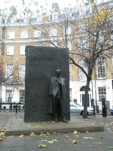 The Wallenberg Statue in Great Cumberland Place More information about Raoul Wallenberg Raoul_Wallenberg